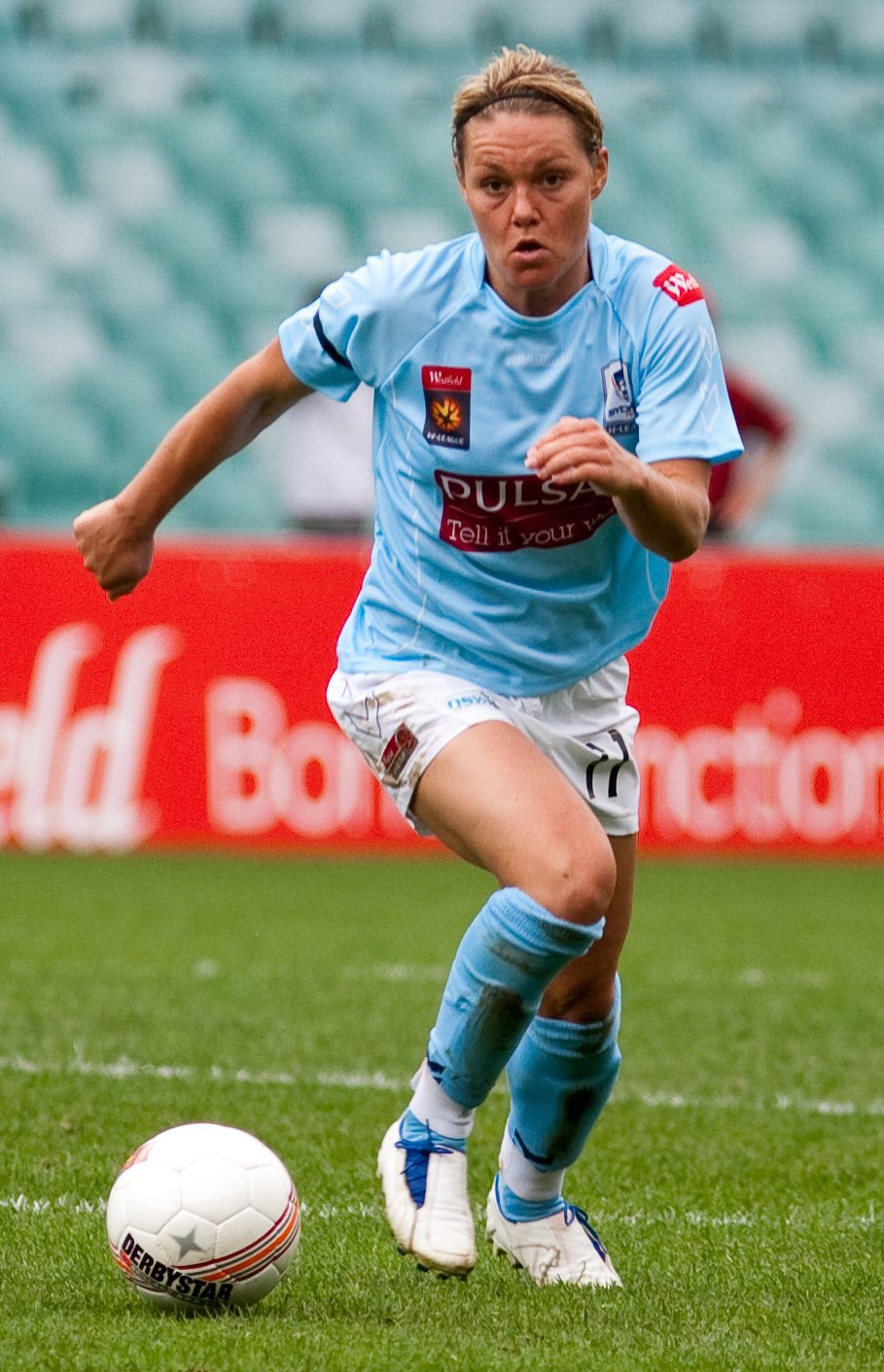 Catherin Paaske playing for Sydney FC against the Central Coast Mariners in Round 1 of the 2009 W-League.